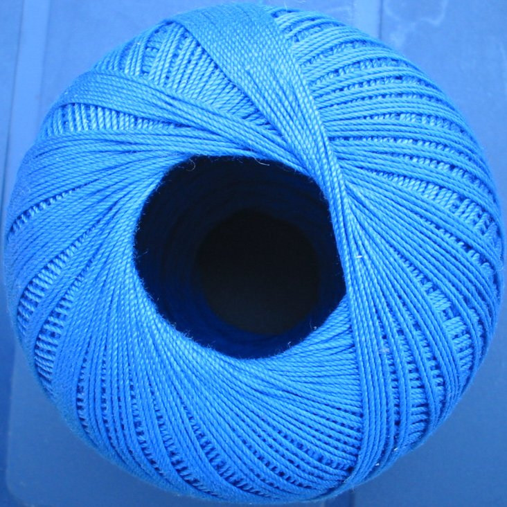 A ball of shiny blue crochet thread.